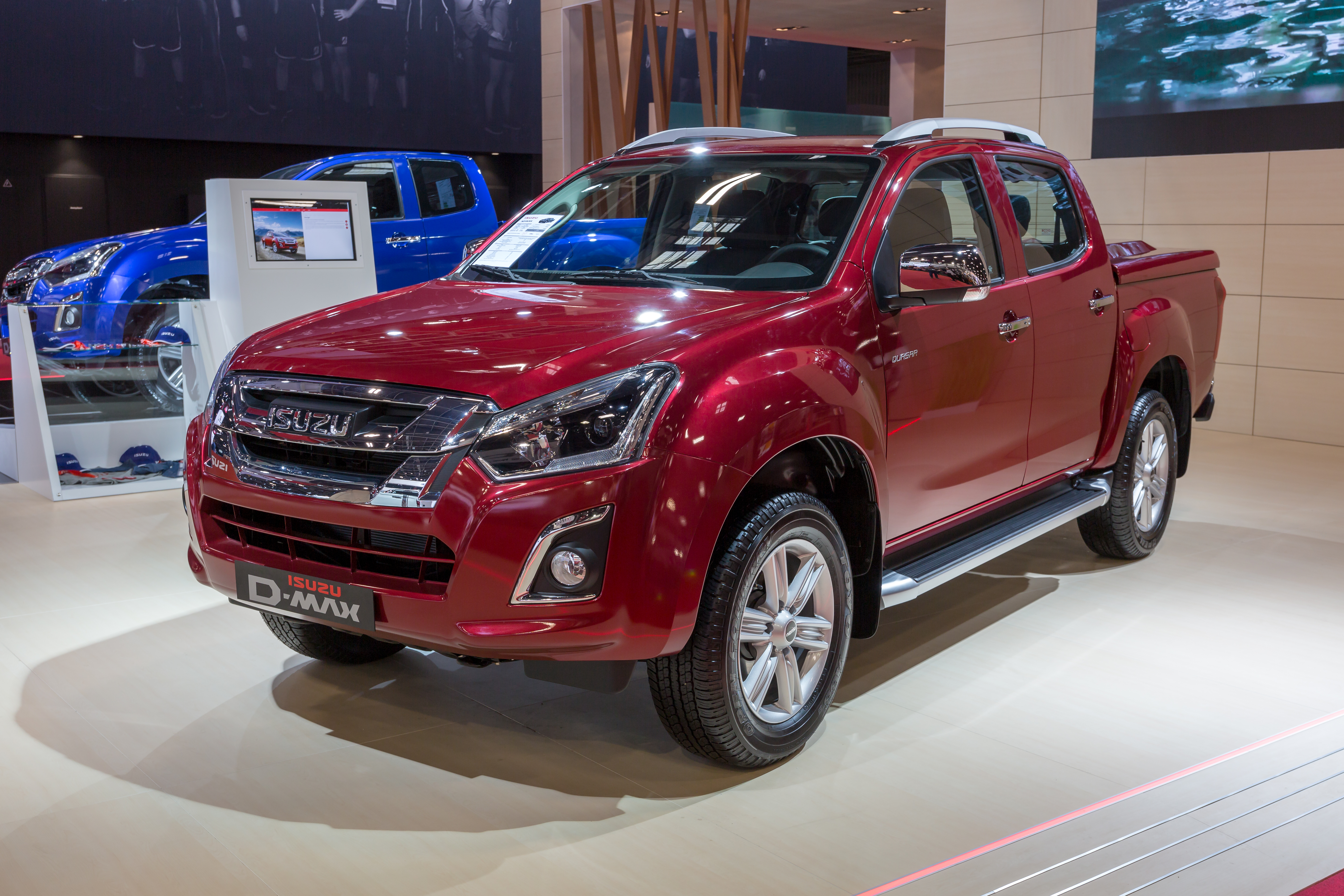 Isuzu D-Max Quasar at Mondial Paris Motor Show 2018